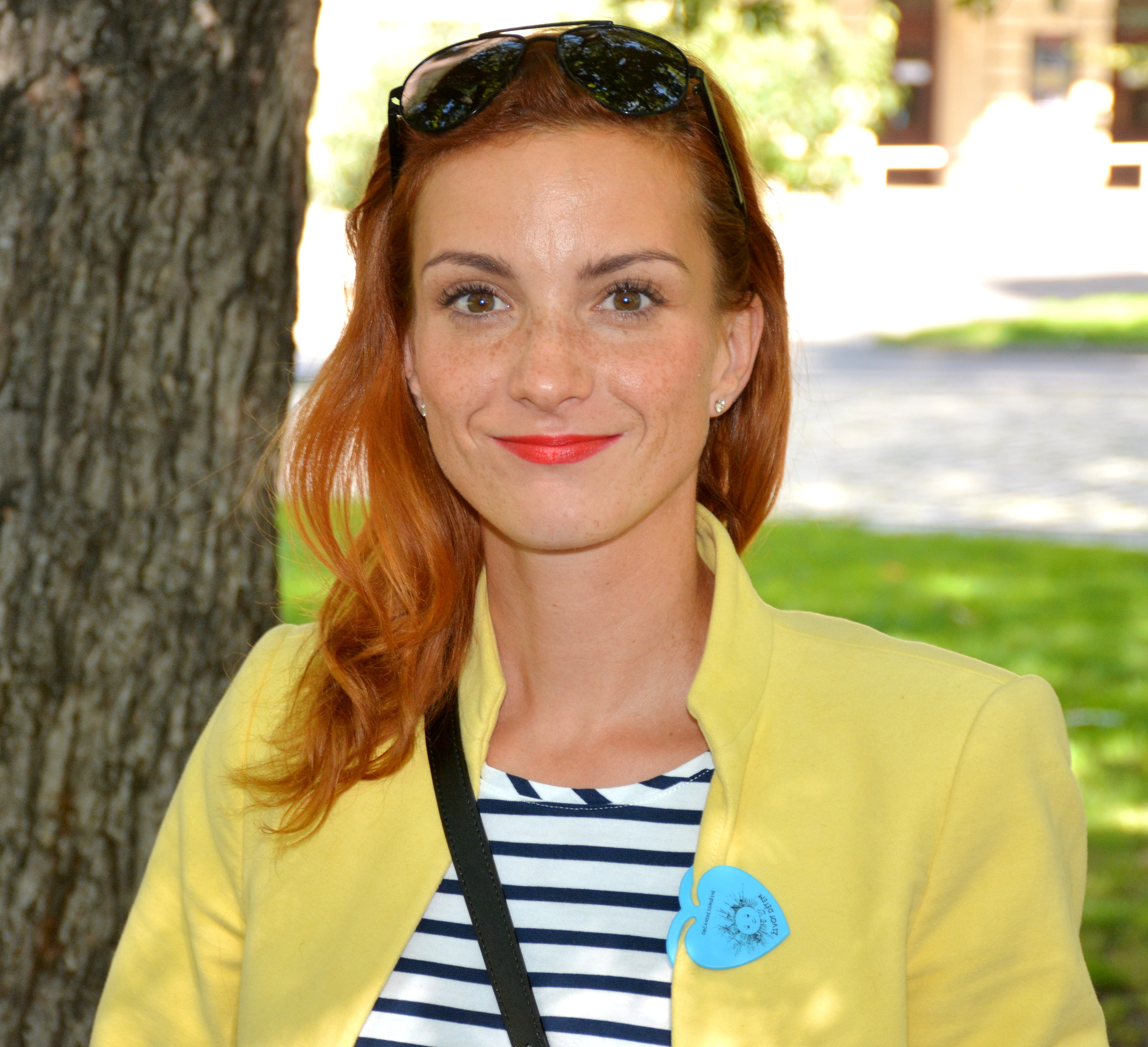 Michaela Maurerová, Czech actress